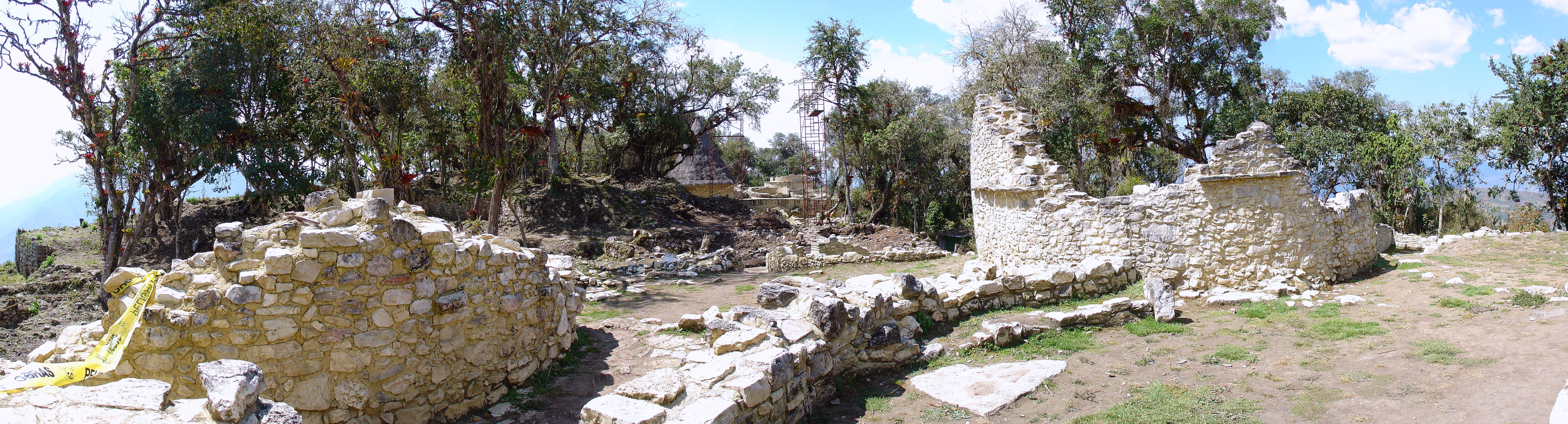 Ruins on the Kuelap forteress